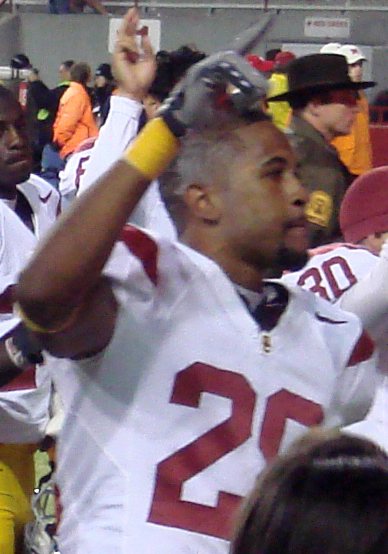 Cornerback Terrell Thomas celebrates a USC victory over Nebraska. He is making the traditional USC Trojan "V" for victory hand sign.